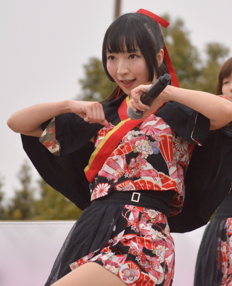 宮脇舞依（KRD8 ライブステージ）